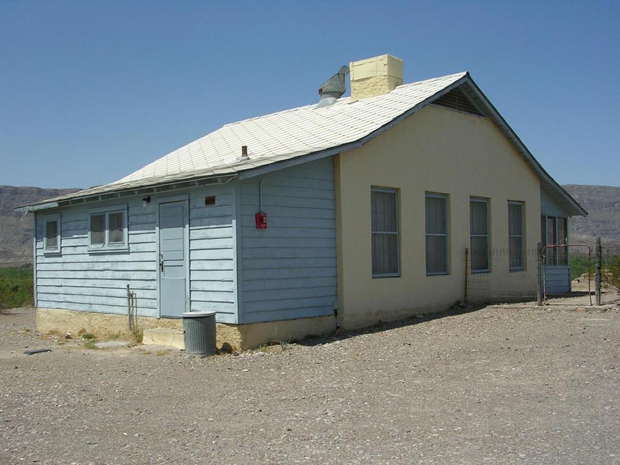 Castolon Army Compound officers' quarters in Big Bend National Park, Texas, USA